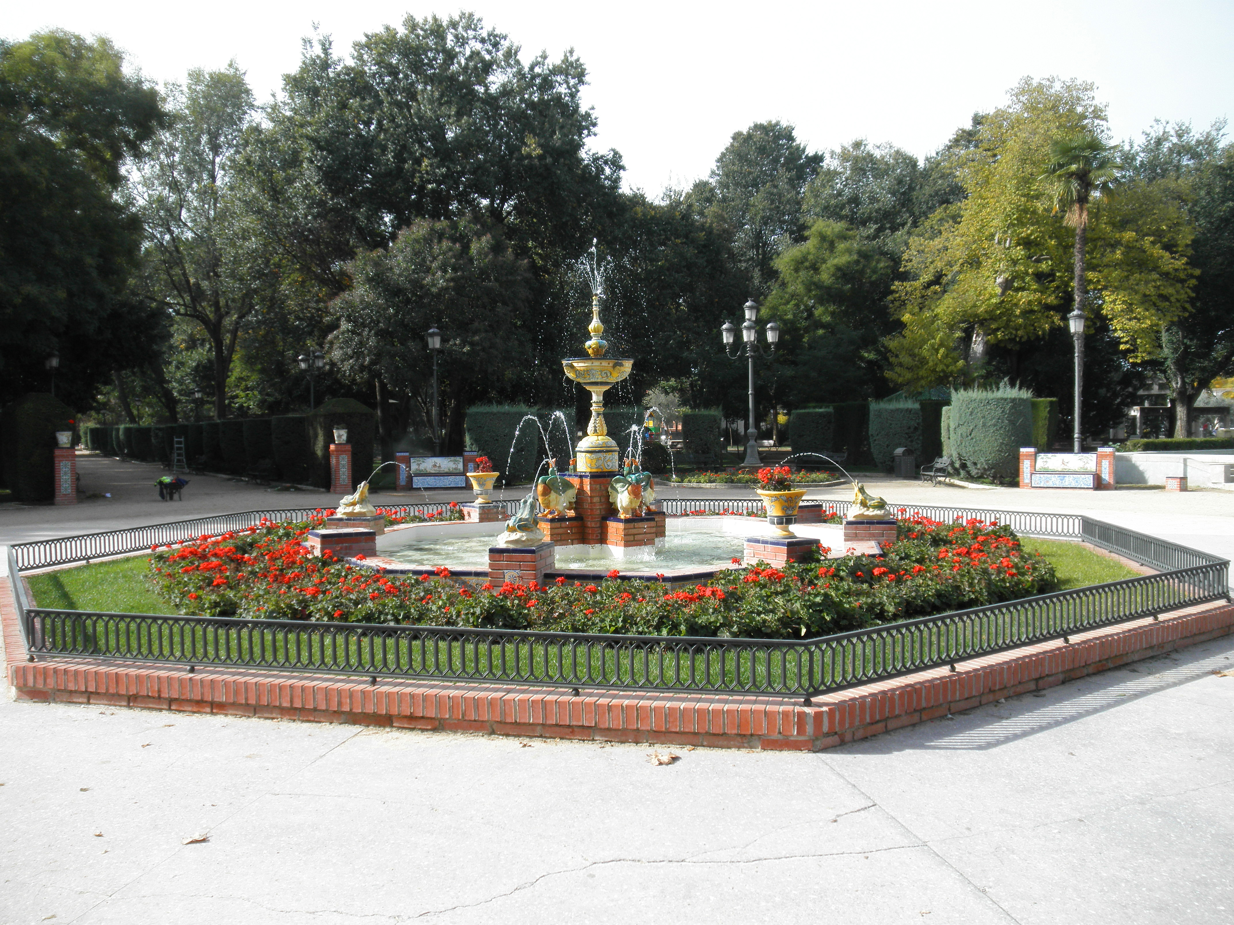 Talaverana fountain, made in pottery of Talavera de la Reina, Parque Gasset (Ciudad Real), Spain